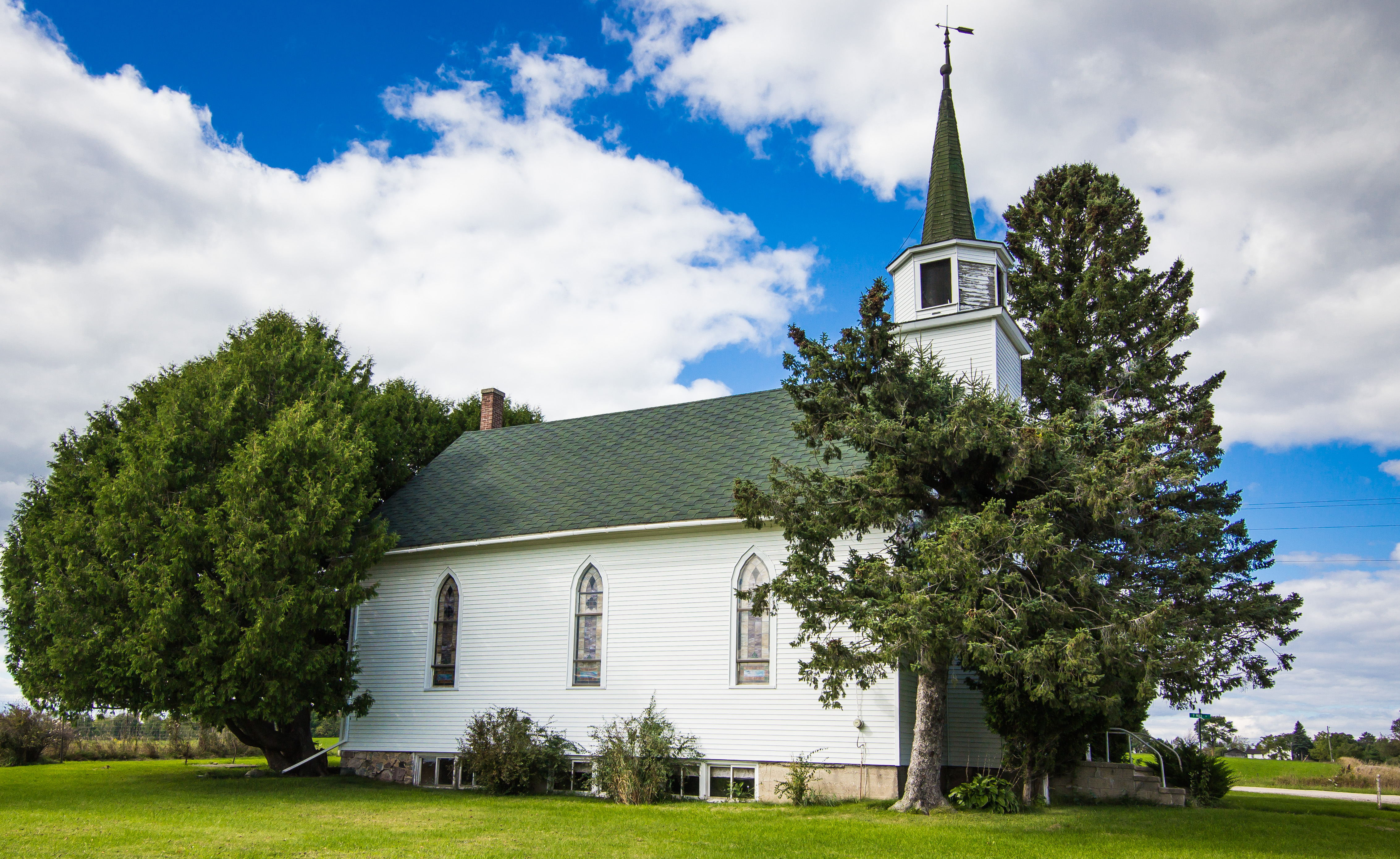 North Evart United Methodist Church